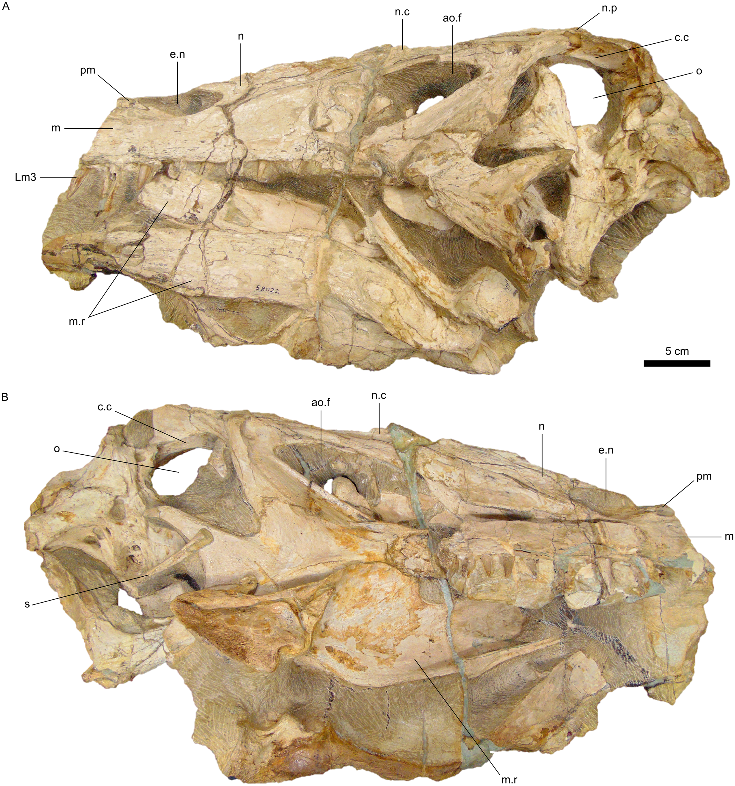 Specimen SMNS 58022, holotype of Irritator challengeri. A, Left lateral view. B, Right lateral view. The abbreviation for the third tooth of the left maxilla follows Hendrickx et al. [58]. Additional abbreviations: ao.f, antorbital fenestra; c.c, crista cranii; e.n, external naris; m, maxilla; m.r, mandibular ramus; n, nasal; n.c, nasal sagittal crest; n.p, nasal process; o, orbit; pm, premaxilla; s, stapes.